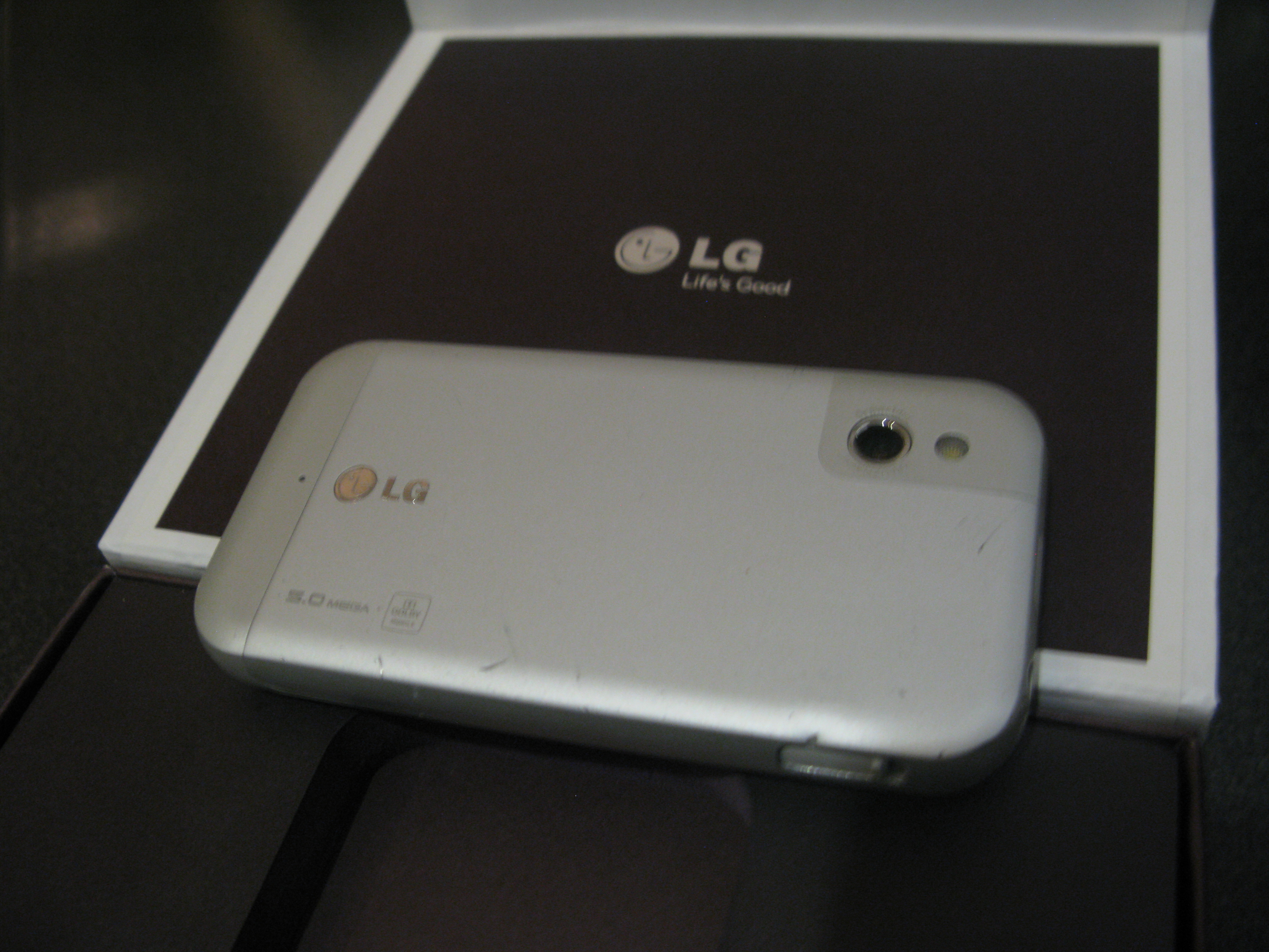 A LG Arena (KM900) with box.